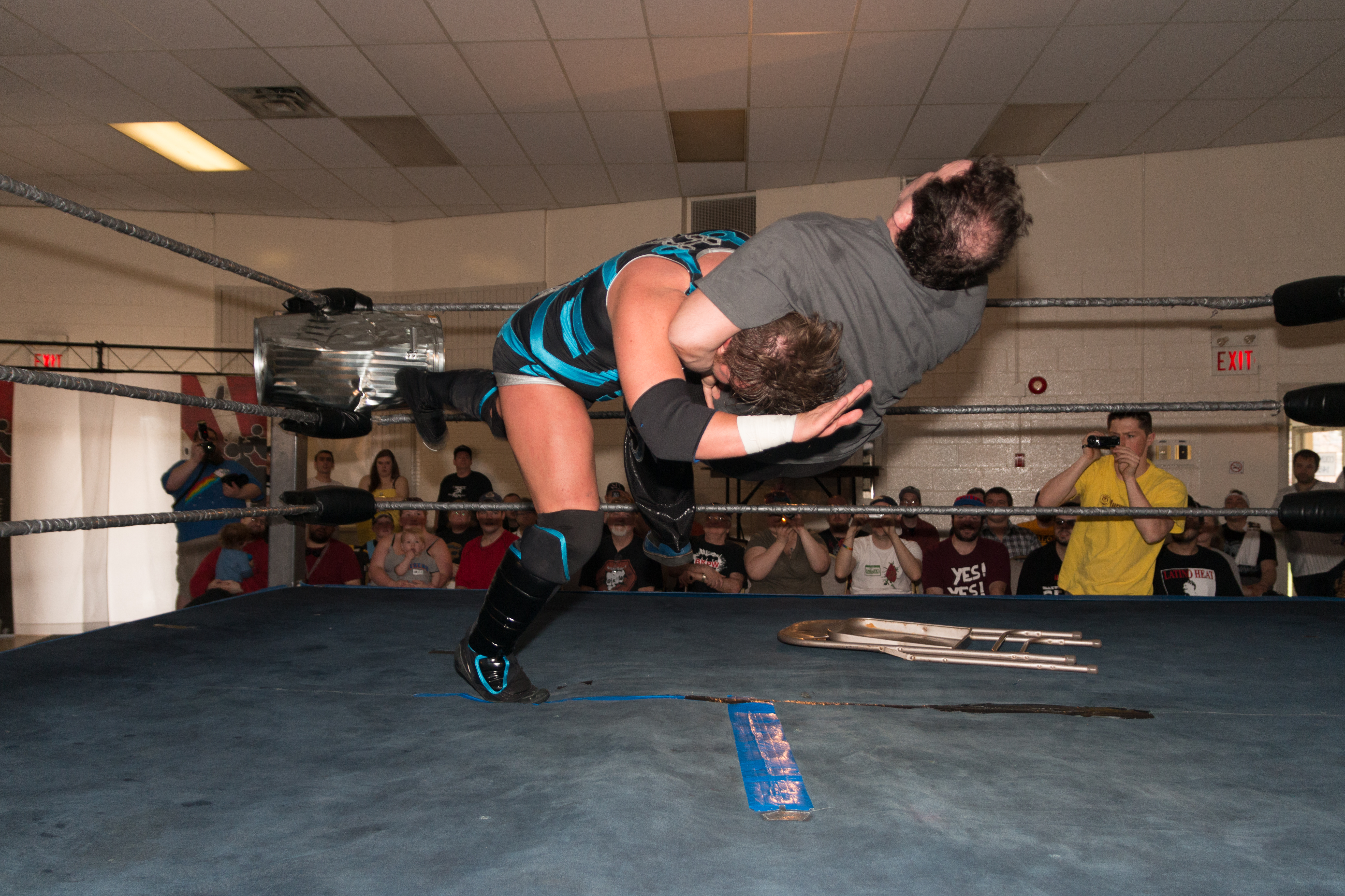 Pro wrestler Tommy Dreamer executing a DDT on Scotty O'Shea at an Alpha-1 show in Hamilton, ON